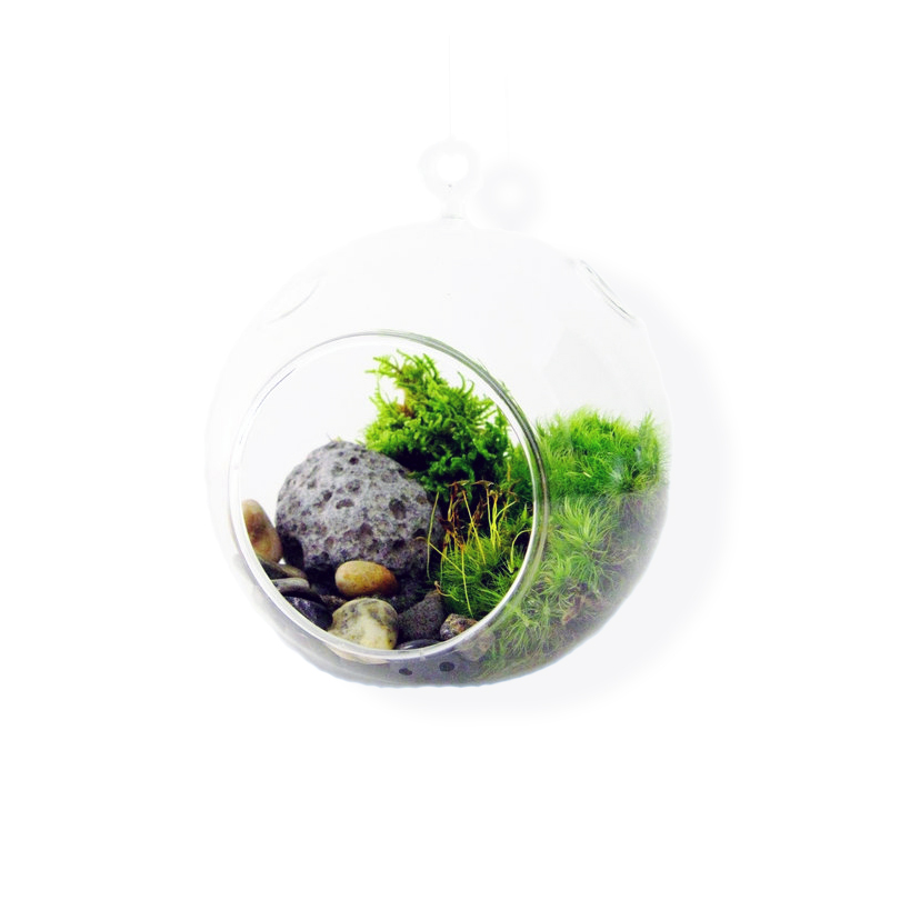 The hanging open glass ball terrarium